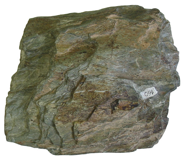 Photographer: Siim Sepp Date of the creation: 20th April, 2005.